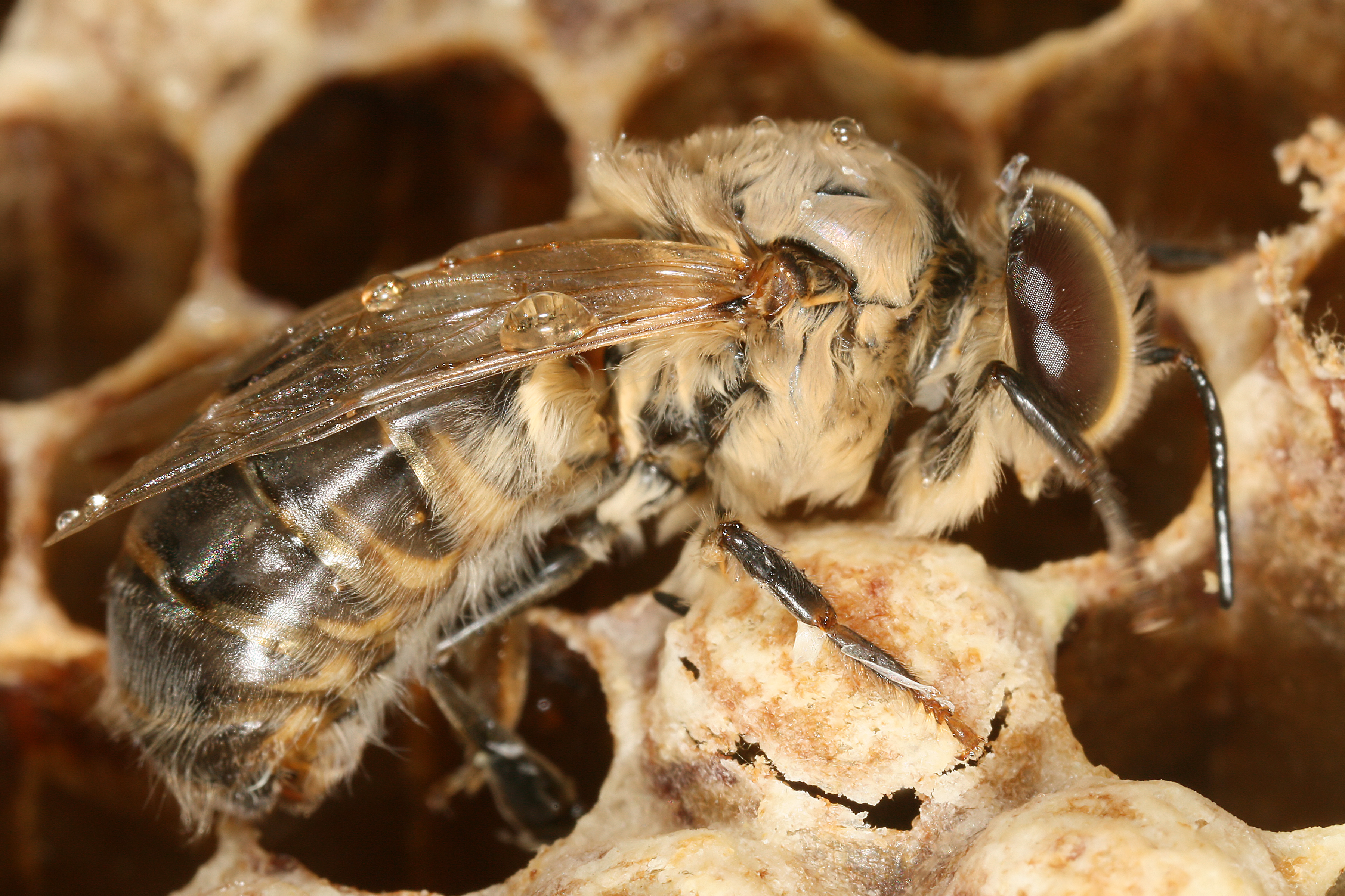 Description: The Carniolan honey bee (Apis mellifera carnica) is a subspecies of Western honey bee. It originates from Slovenia, but can now be found also in Austria, part of Hungary, Romania, Croatia, Bosnia and Herzegovina, and Serbia.